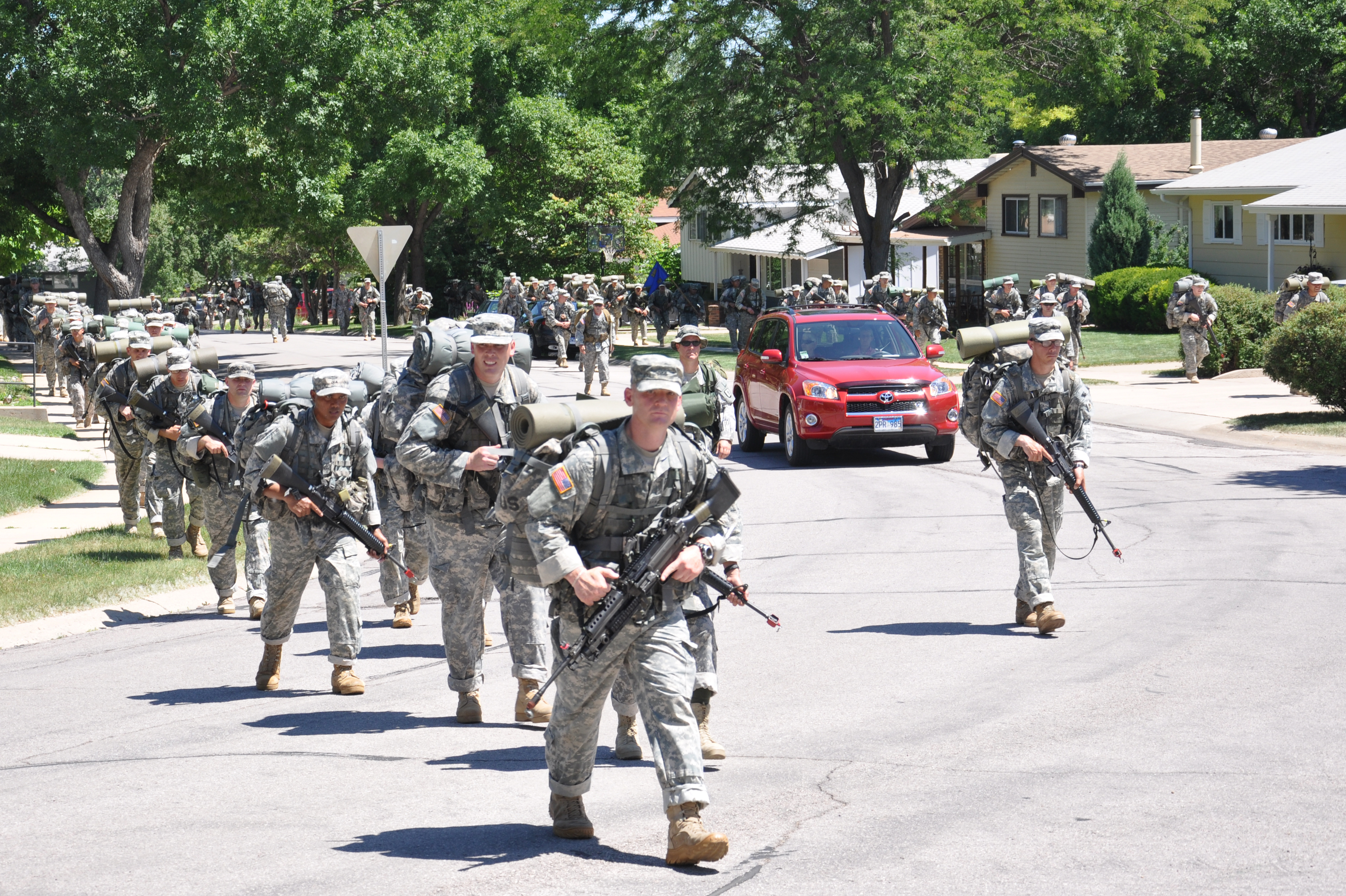 National Guard officer candidates take part in a tactical road march through a west Rapid City neighborhood July 16, 2011. The soldiers are some of the 154 total National Guard service members from around the country that are participating in the final phase of their officer candidate school conducted at the West Camp Rapid training area by the South Dakota National Guard's 1st Battlion (Officer Candidate School), 196th Regiment (Regional Training Institute).